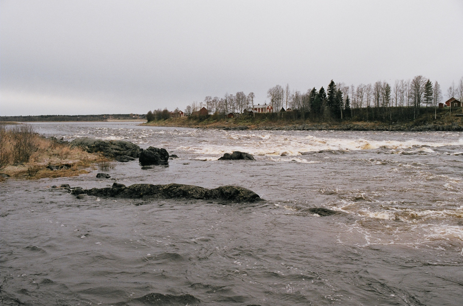 A view from the Matkakoski rapids of Torne River. Located in Tornio, Finland, and Haparanda, Sweden. Photo taken from the Finnish side.